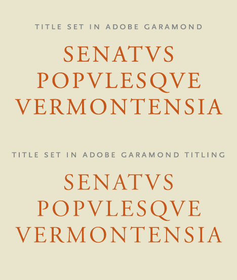 Specimen showing a comparison of text capitals and titling capitals. 08.04.07. Jim Hood